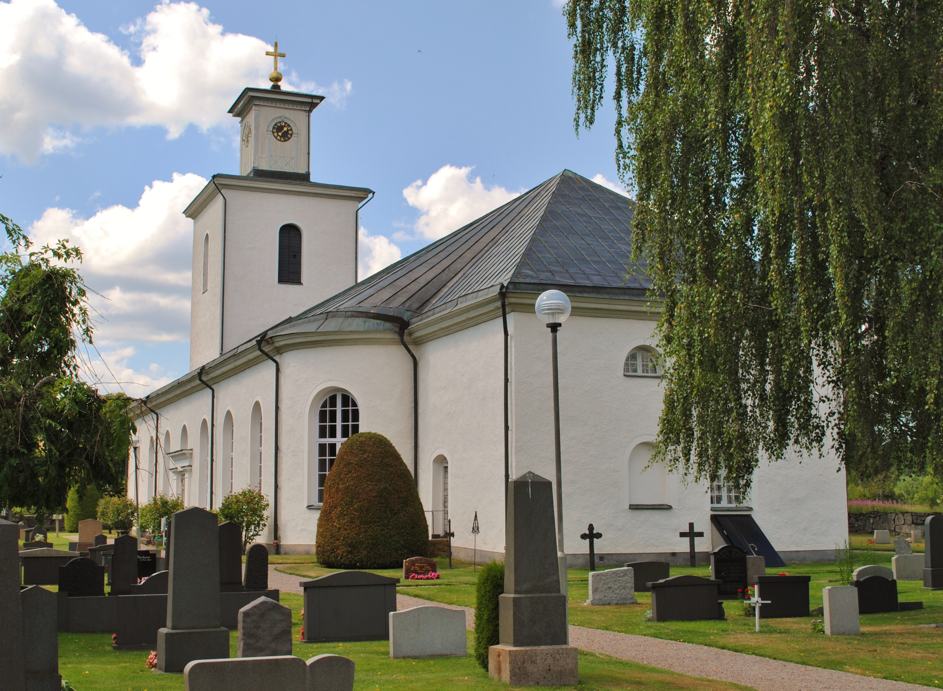 Slätthög Church.Exterior